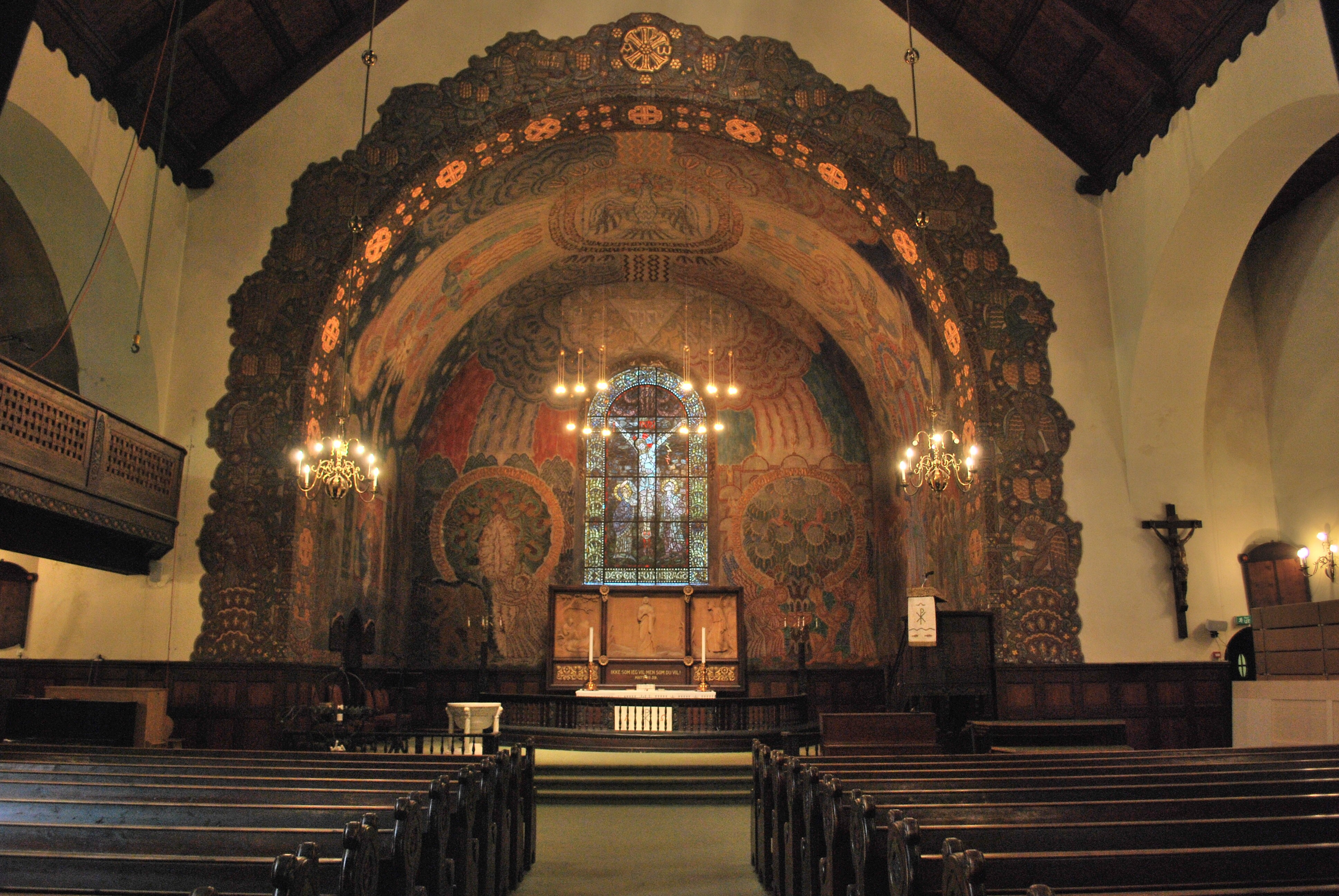 Ålesund kirke, interior, Ålesund. The artist who has painted the murals: Enevold Thømt